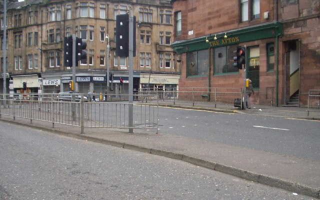 Canal St, Paisley. Road junction near the centre of Paisley